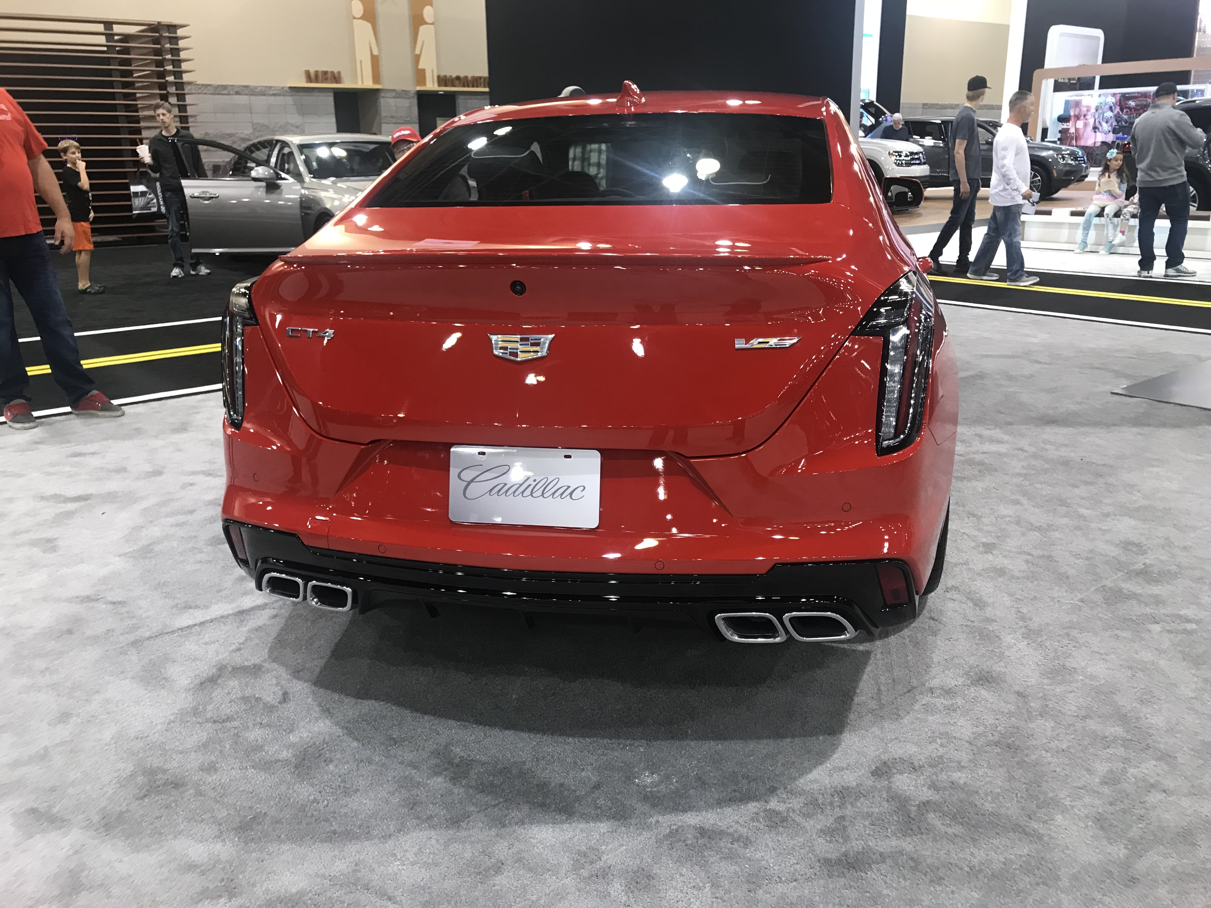 A 2020 Cadillac CT4 at the Arizona International Auto Show in Phoenix, Arizona